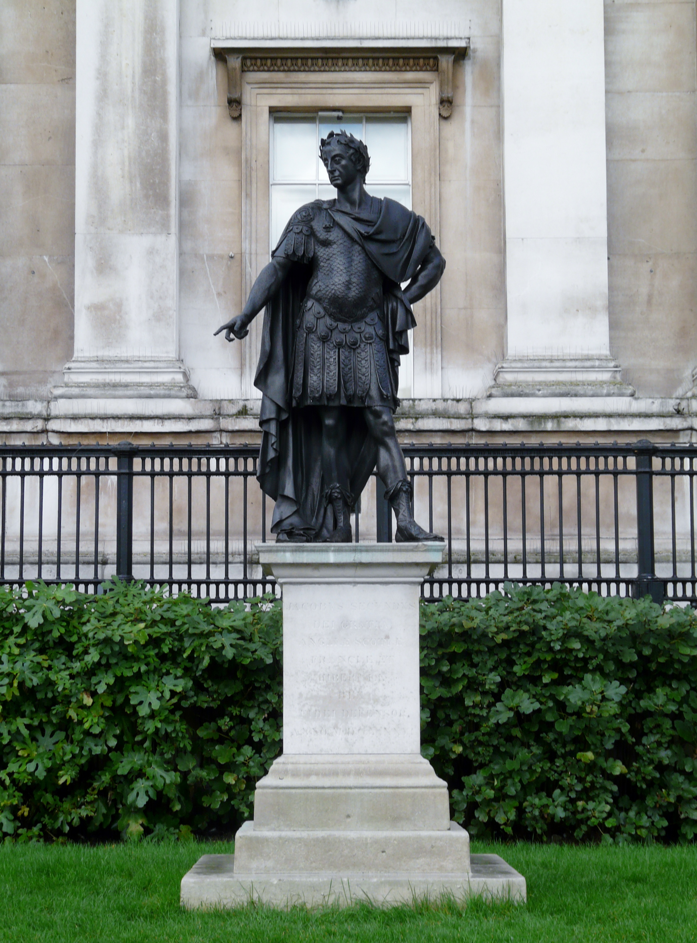 Statue of James II (Grinling Gibbons and workshop; erected 1686) in front of the west wing of the National Gallery on Trafalgar Square, London